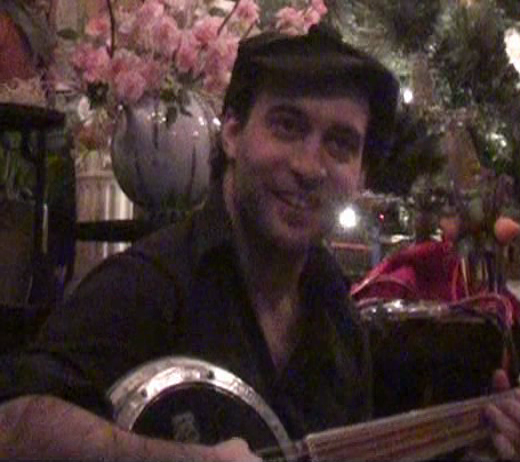 Carmine Guida playing a show for New Year's